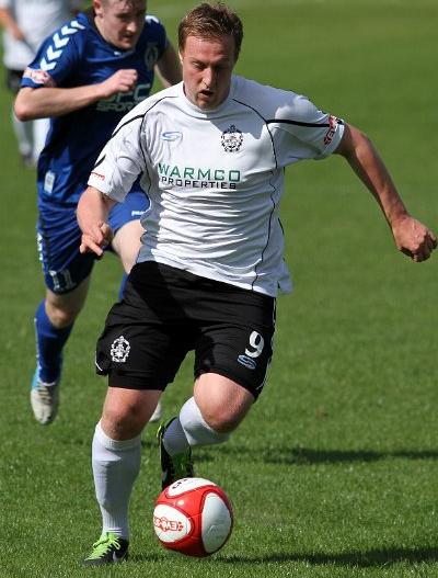 Danny Broadbent in 2013